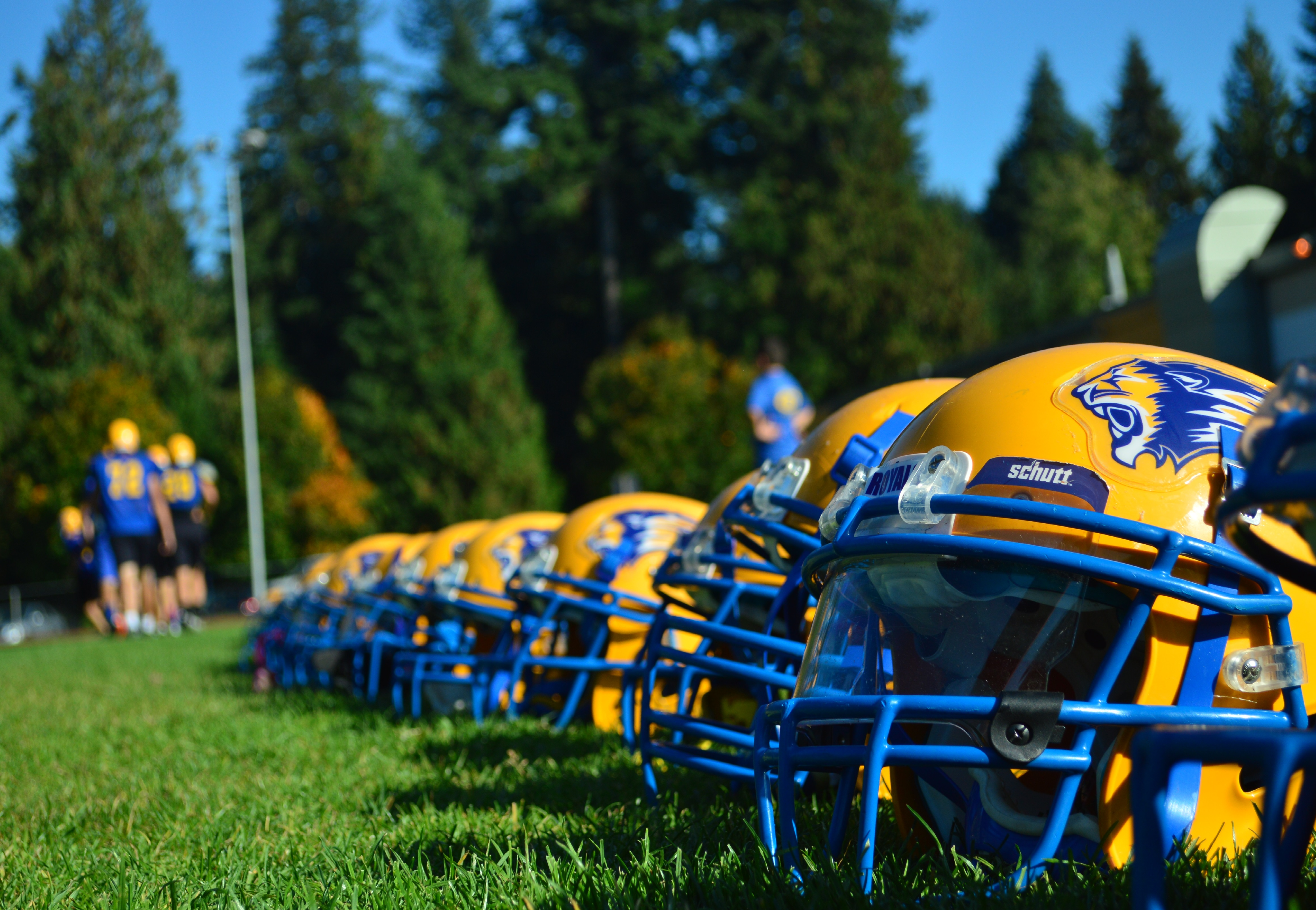 Shield-X decal on American Football Helmets. Location football field